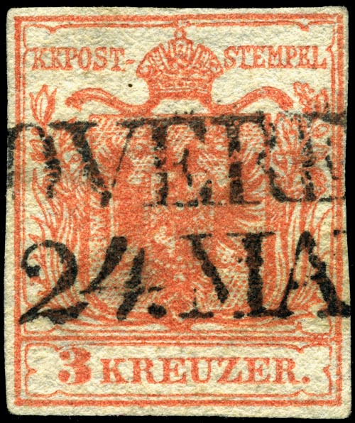 Austria 3-kreuzer stamp of 1850